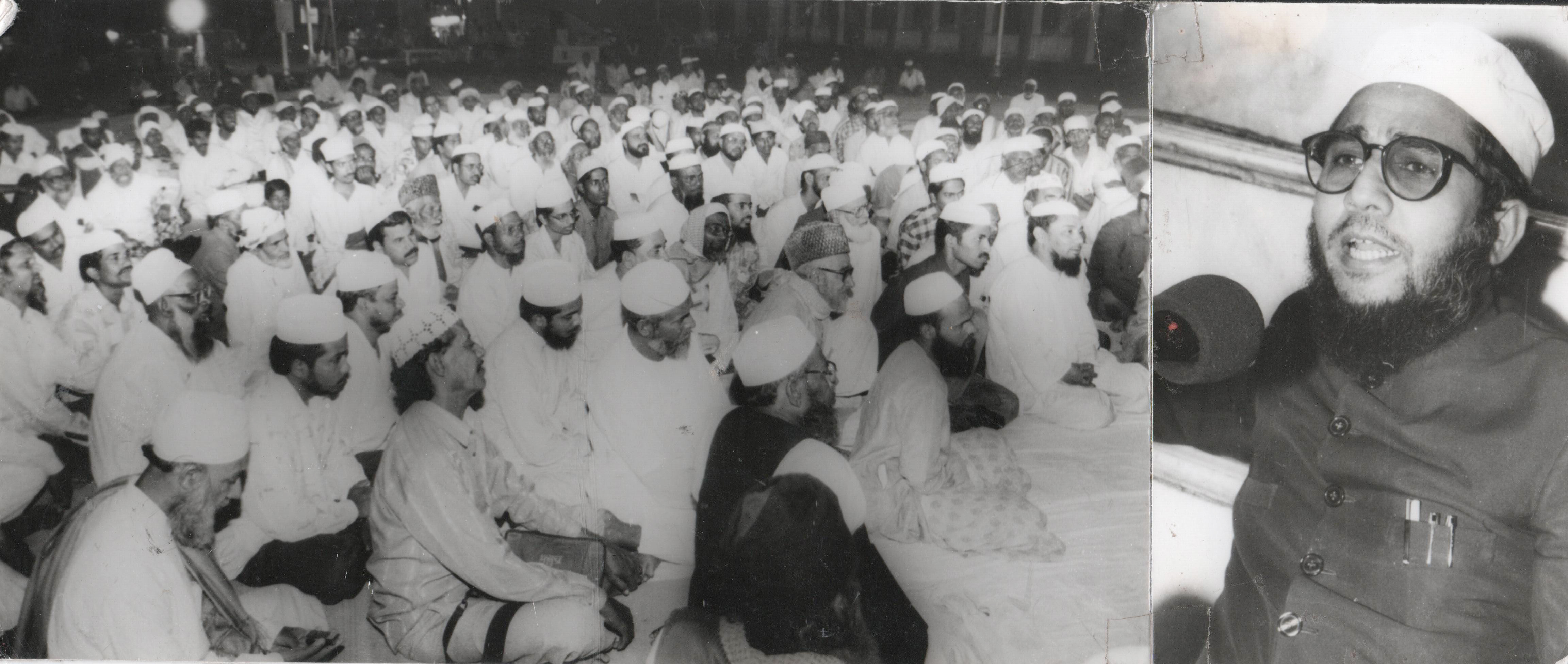 Jalsa in the memory of Imam-E-Azam Abu Hanifa(R.A) organized by Moulana Ghousavi Shah(President: All India Muslim Conference)